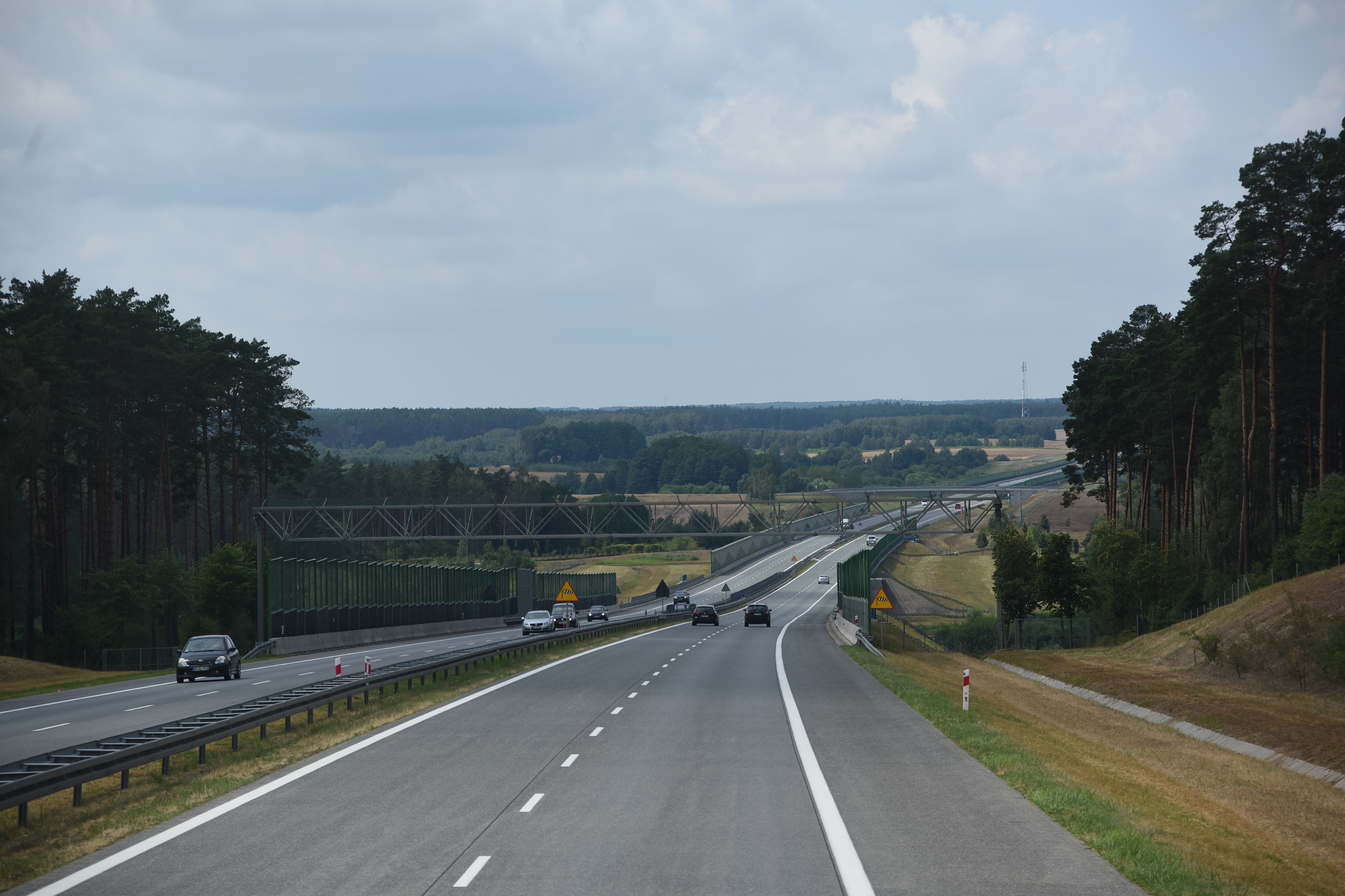 Autostrada A2 in Lubusz Voivodeship, Poland. July 2019